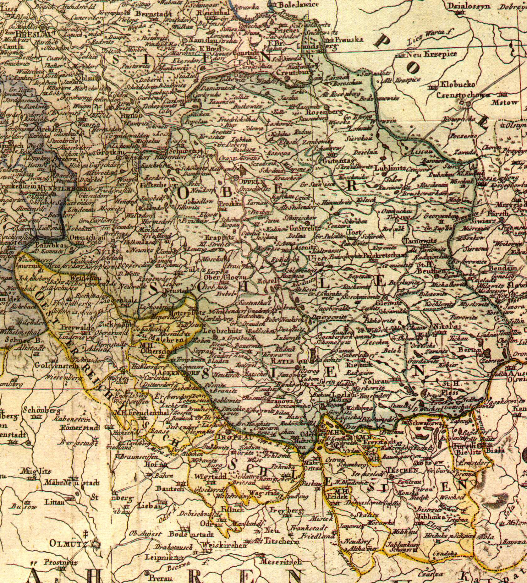 Map of Upper Silesia, 1818